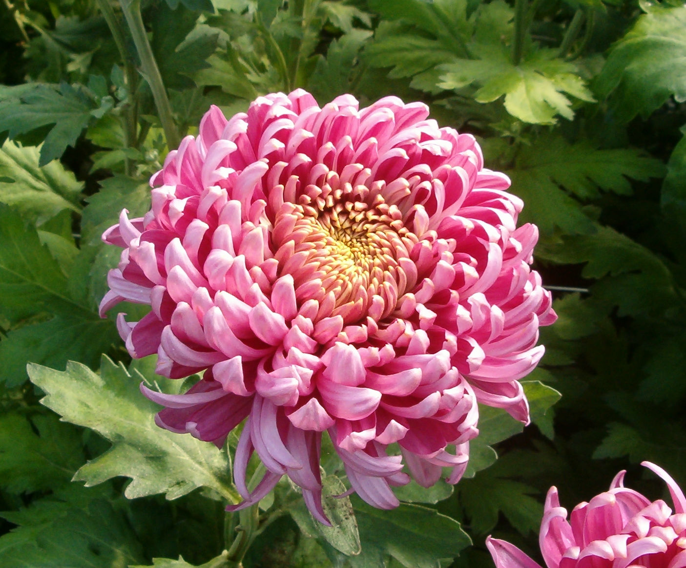 Chrysanthemum grandiflorum, variety name: Bislet